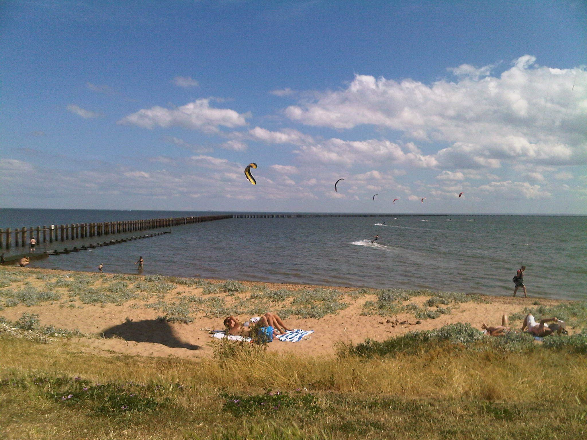 East Beach in Shoeburyness, Essex